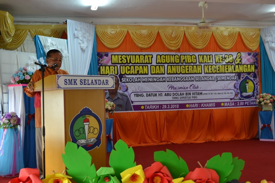 GAMBAR 11